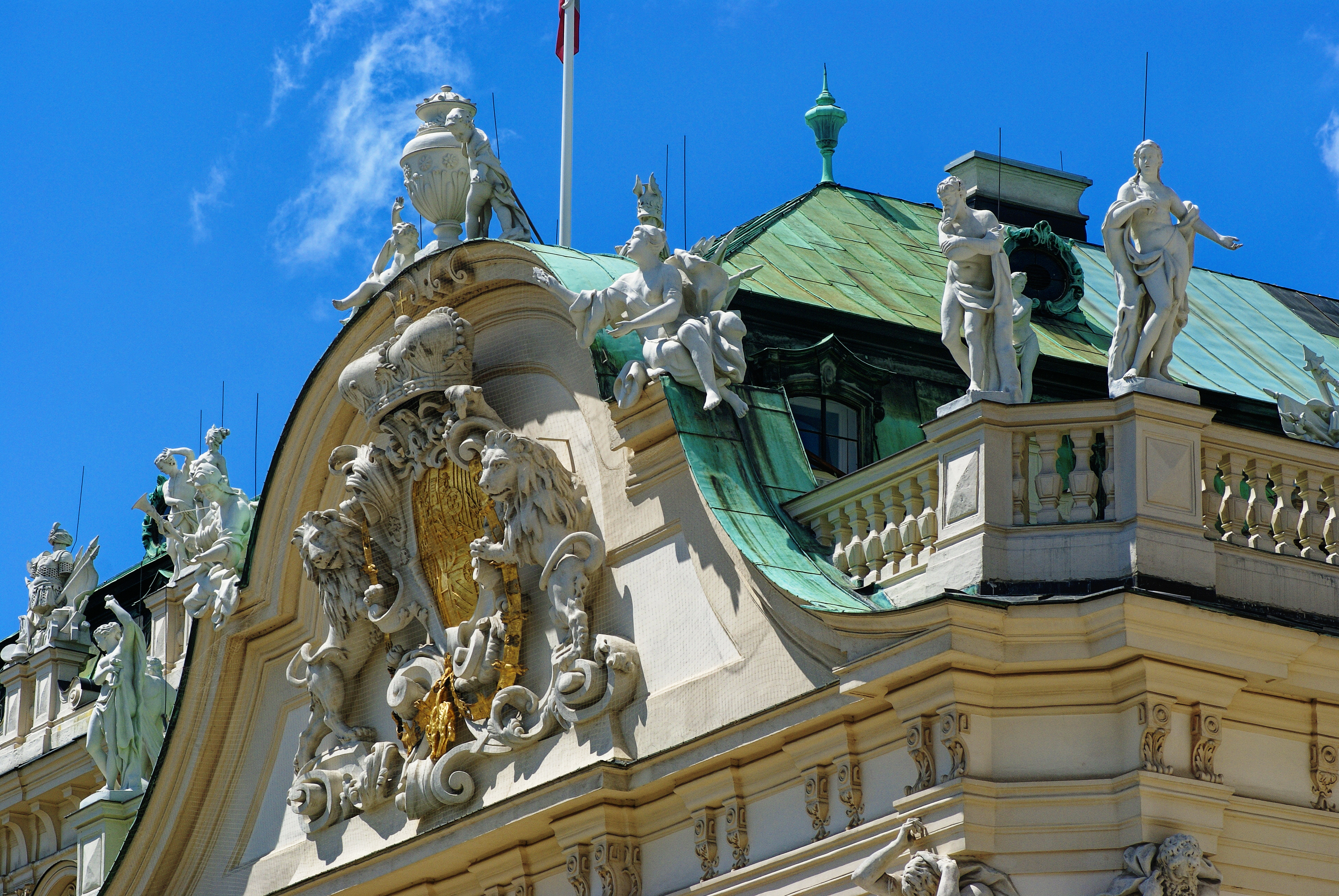 Wien - Oberes Belvedere 1773 Johann Lukas von Hildebrandt - View NW